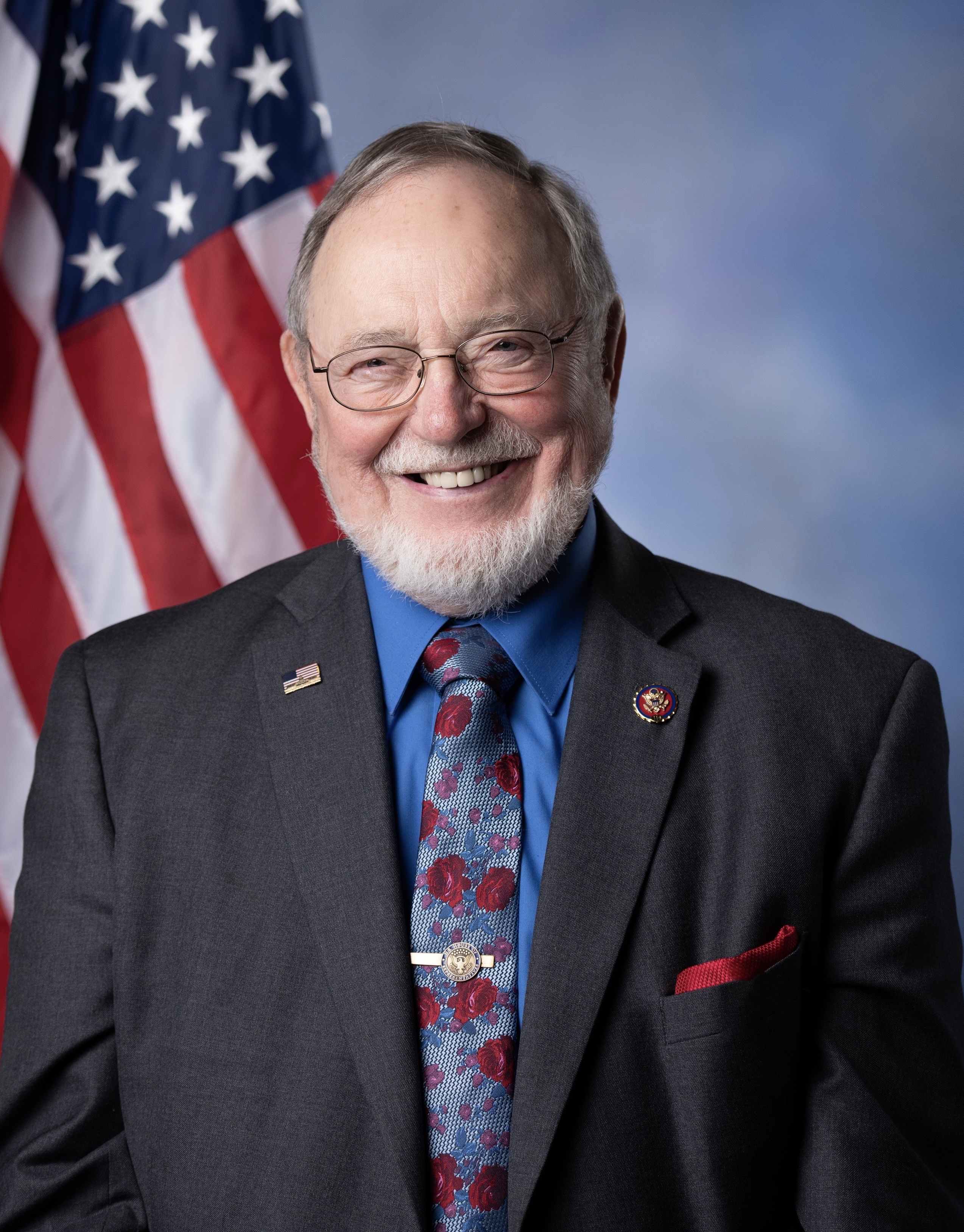 U.S. Congressman Don Young (R-AK), Dean of the House, 2020 Portrait by the U.S. House of Representatives